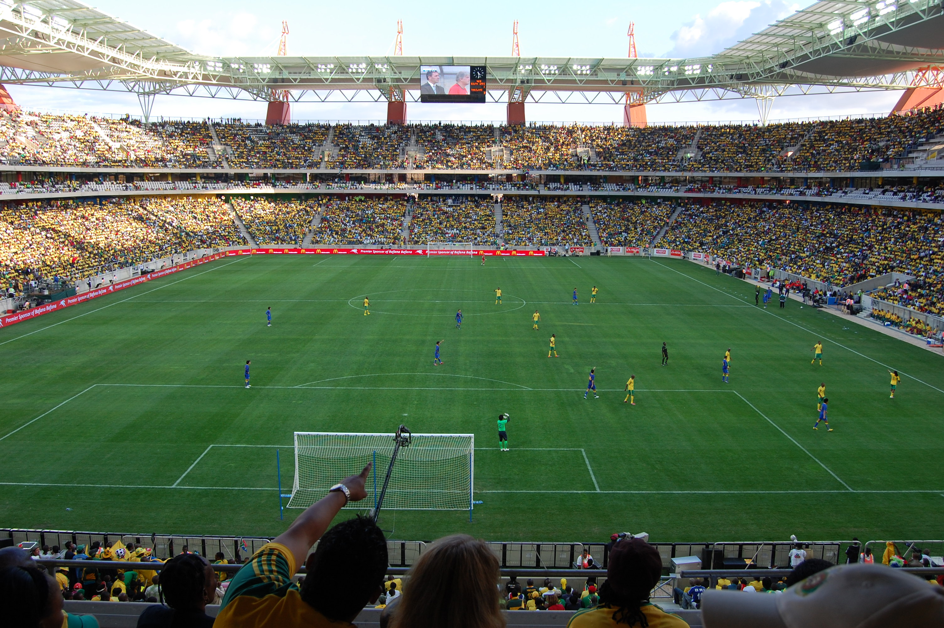 Mbombela Stadium inaugural game. South Africa vs Thailand. 5 May 2010